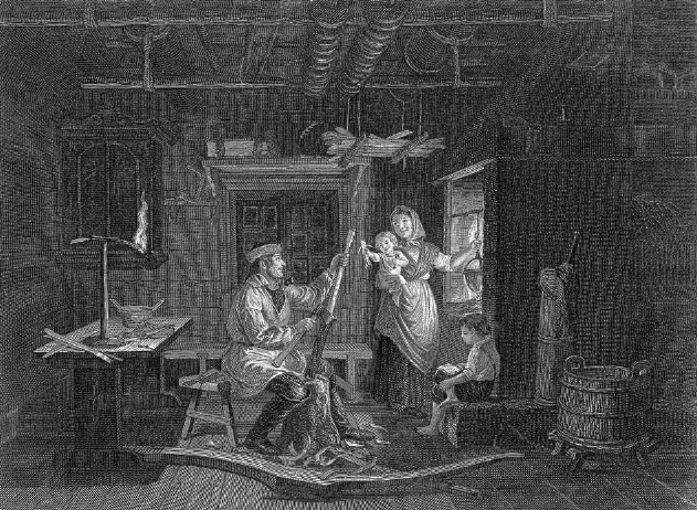 In a cottage in Somero paarish a winter night. By Robert Wilhelm Ekman.